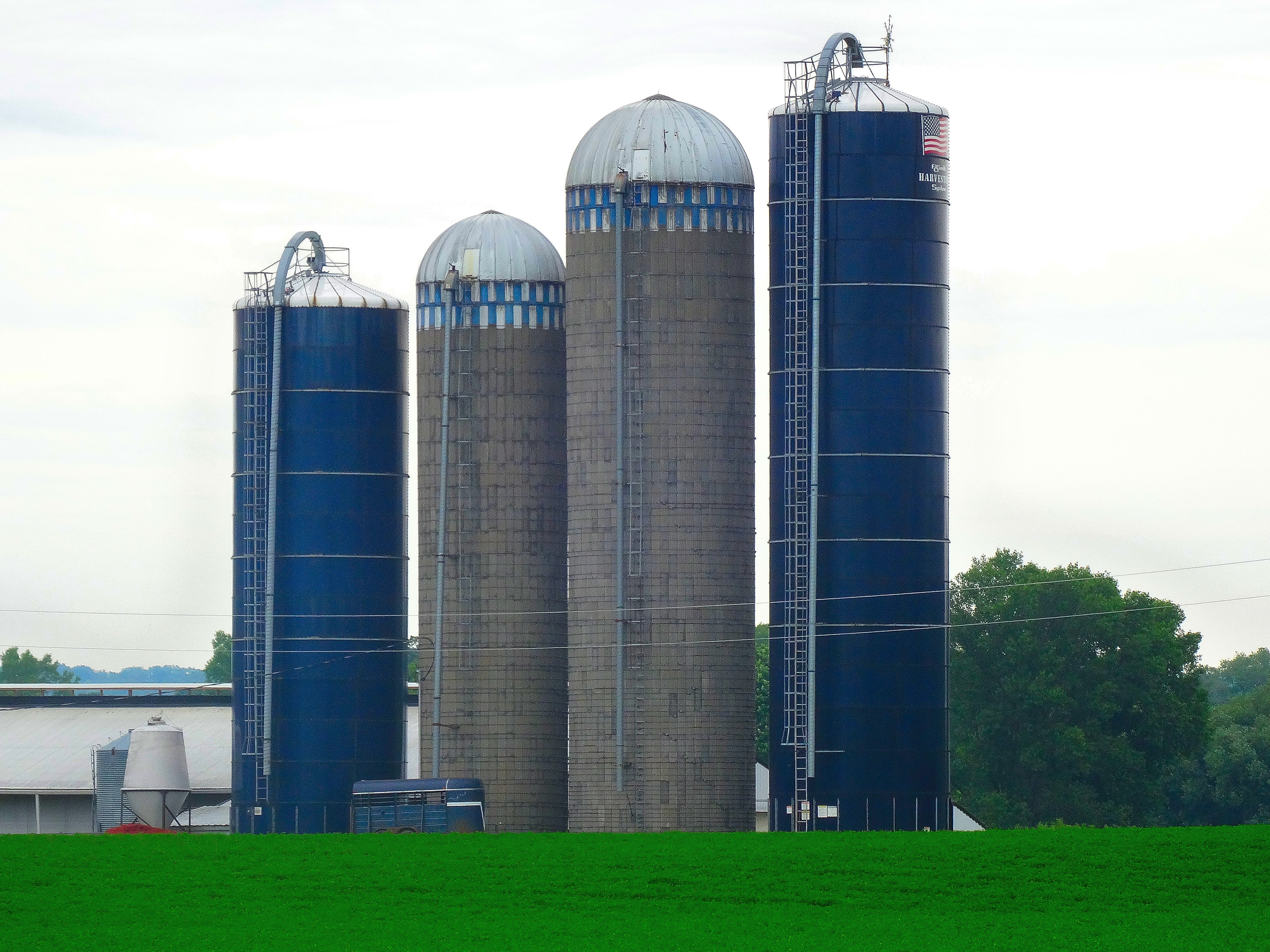 Two Concrete Stave & Harvestore® Silos